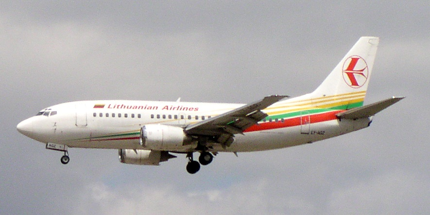 Lithuanian Airlines Boeing 737-500 in Frankfurt/Main, July 2005.